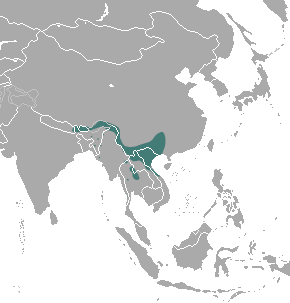 Back-striped Weasel (Mustela strigidorsa) range